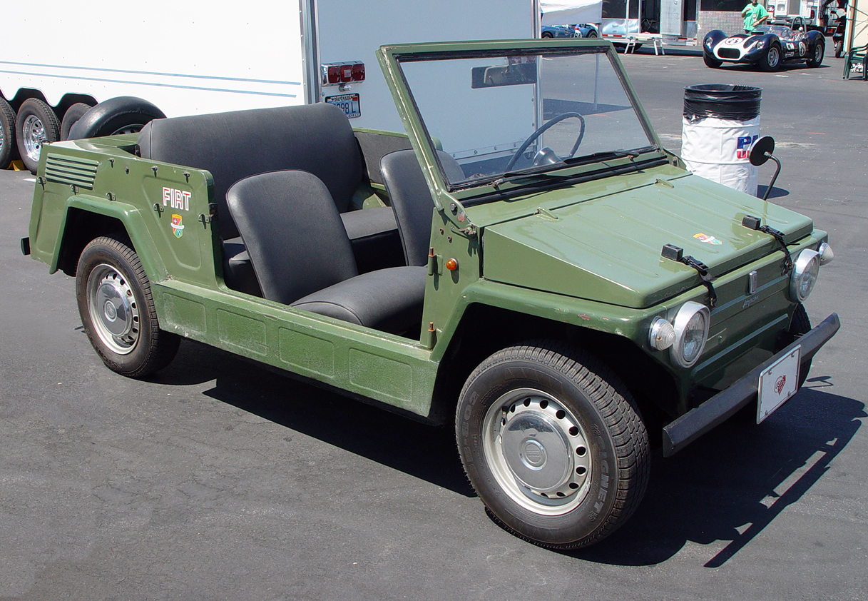 Fiat 600 Savio Jungla, a little multi-purpose torpedo-style vehicle on Fiat 600 underpinnings. Photographed at the 2005 Monterey Historics.